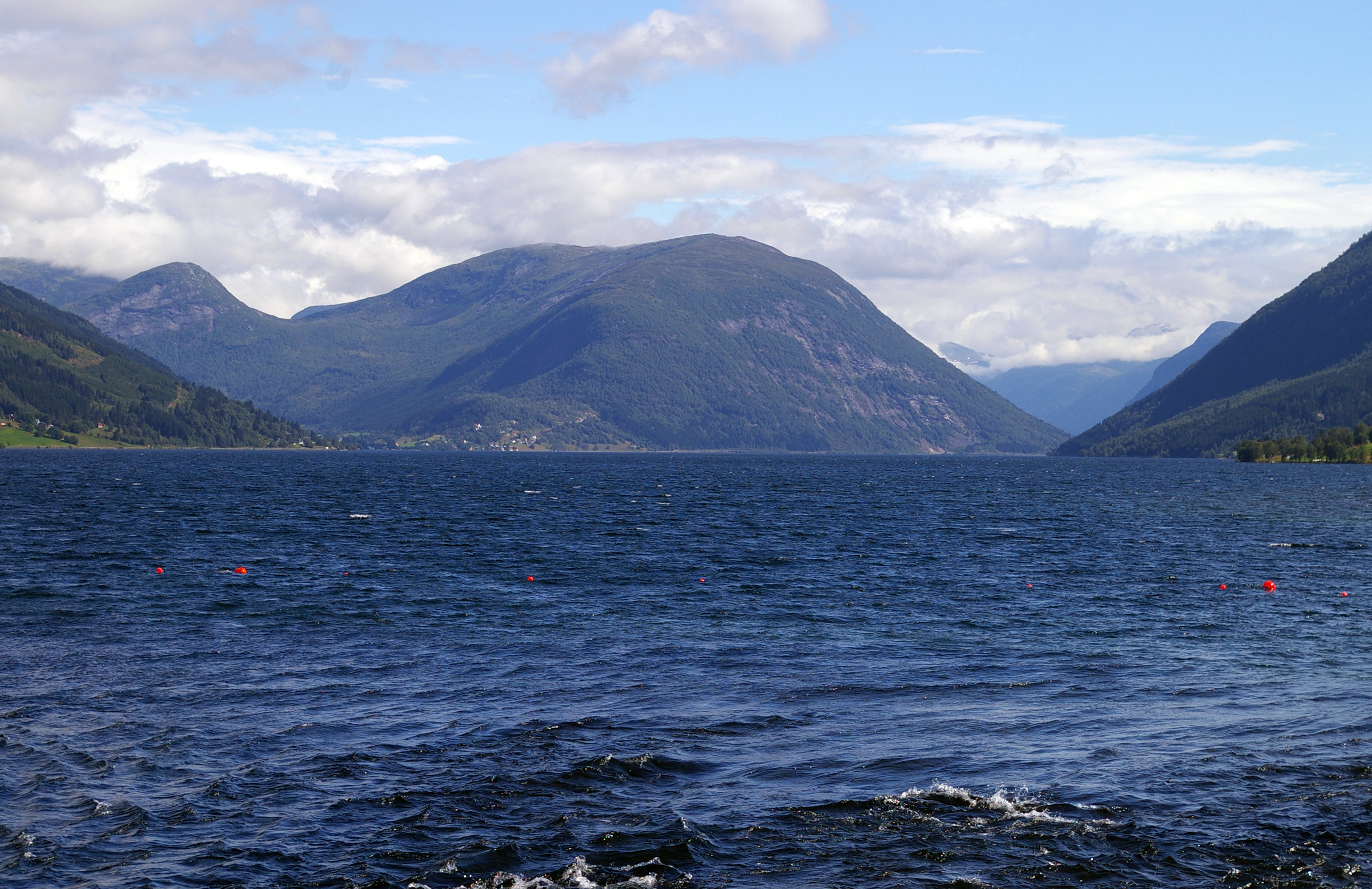 Lake Jølster in Jølster, Sogn og Fjordane, Norway